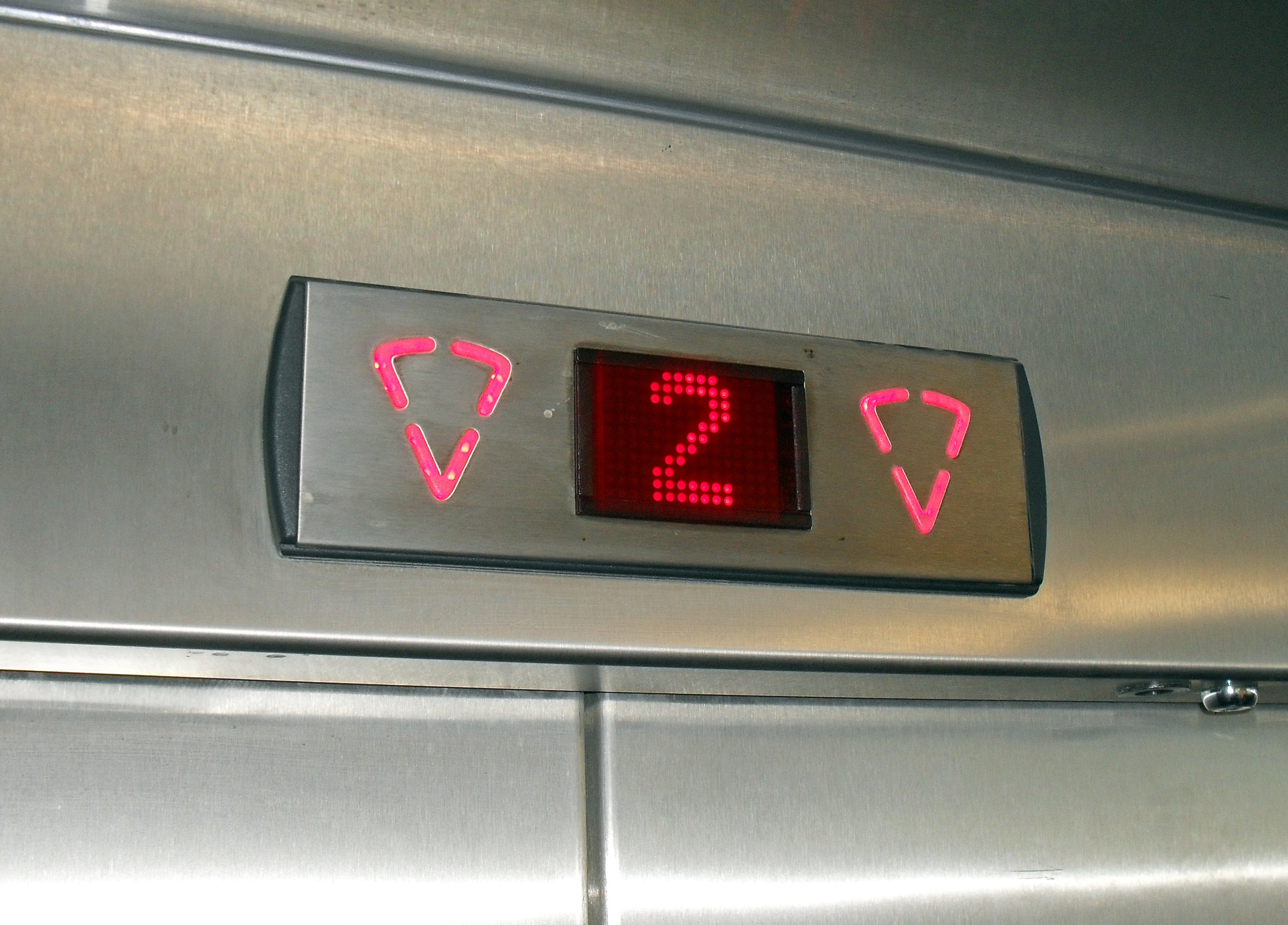 LED elevator floor indicator